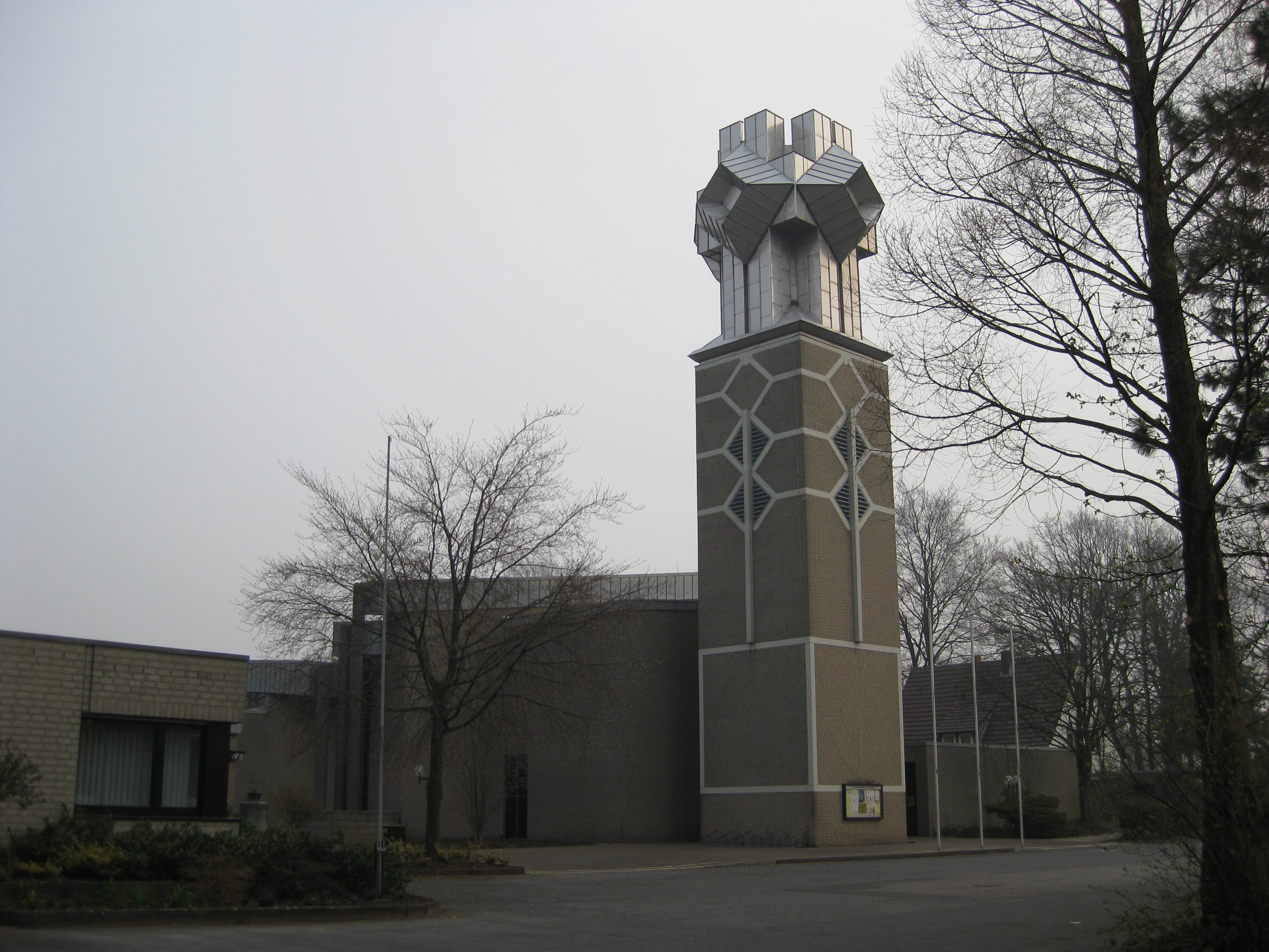 catholic parish church St. Konrad in Gütersloh-Spexard, built in 1972